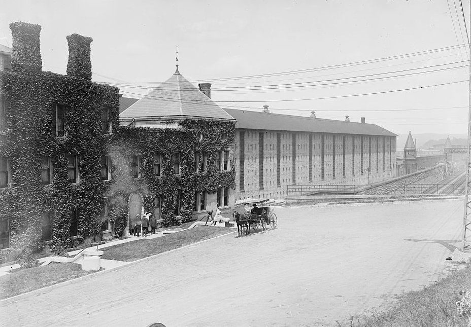 Bain News Service,, publisher. Offices & Prison, Ossining, N.Y. Sing Sing [no date recorded on caption card] 1 negative : glass ; 5 x 7 in. or smaller. Notes: Title from unverified data provided by the Bain News Service on the negatives or caption cards. Forms part of: George Grantham Bain Collection (Library of Congress). Format: Glass negatives. Repository: Library of Congress, Prints and Photographs Division, Washington, D.C. 20540 USA, General information about the Bain Collection is available at Persistent URL: Call Number: LC-B2- 2778-5